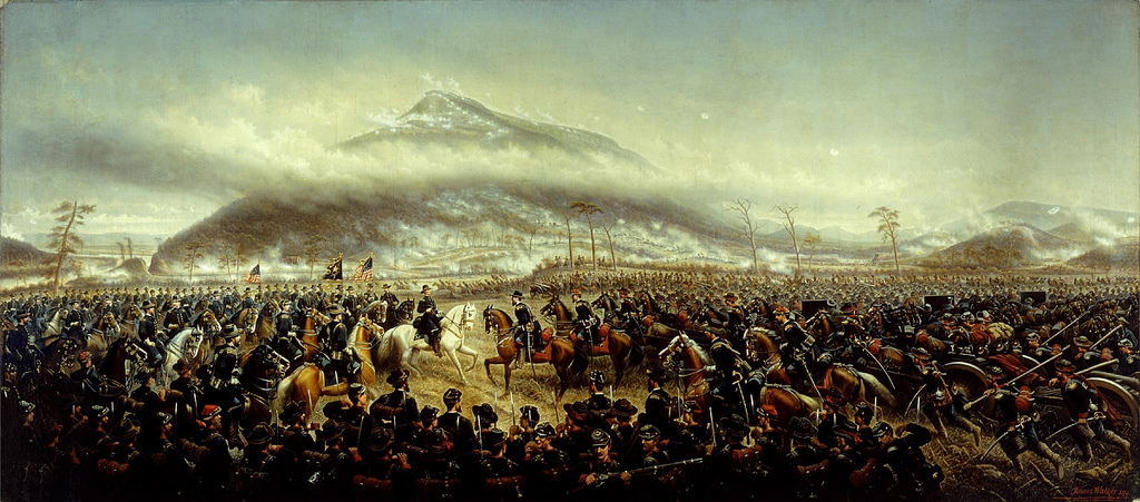 The Battle of Lookout Mountain by James Walker (second version), 1874. At the center on a white horse is Gen. Joseph Hooker, behind Hooker on a black horse is Brig. Gen. Daniel Butterfield. The painting is on display at the Lookout Mountain Battlefield Visitor Center at Point Park, NPS image. Note: James Walker's second image of the Battle of Lookout Mountain was his largest work and is considered by many to be his masterpiece. Commissioned by "Fighting Joe" Hooker to commemorate that general's part in "The Battle Above the Clouds," this second Battle of Lookout Mountain covers a thirteen-by-thirty-foot canvas and was produced for $20,000 over a four-year period. Upon completion in 1874, the painting toured the country with stops in New York, Philadelphia, and San Francisco (NPS).